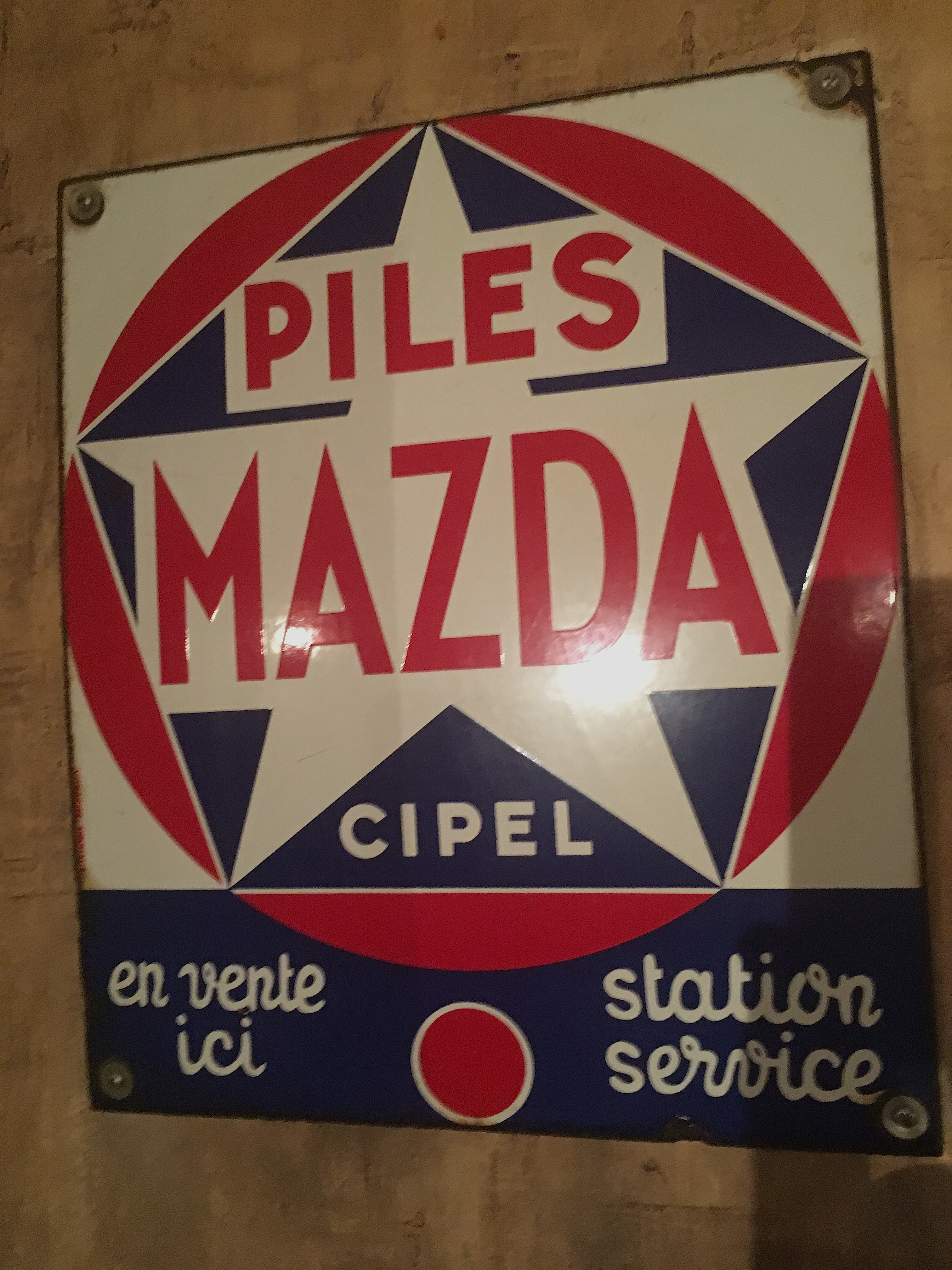 Wall advertising for Mazda batteries, a Compagnie Industrielle des Piles Électriques (CIPEL) production, first half of 20th century